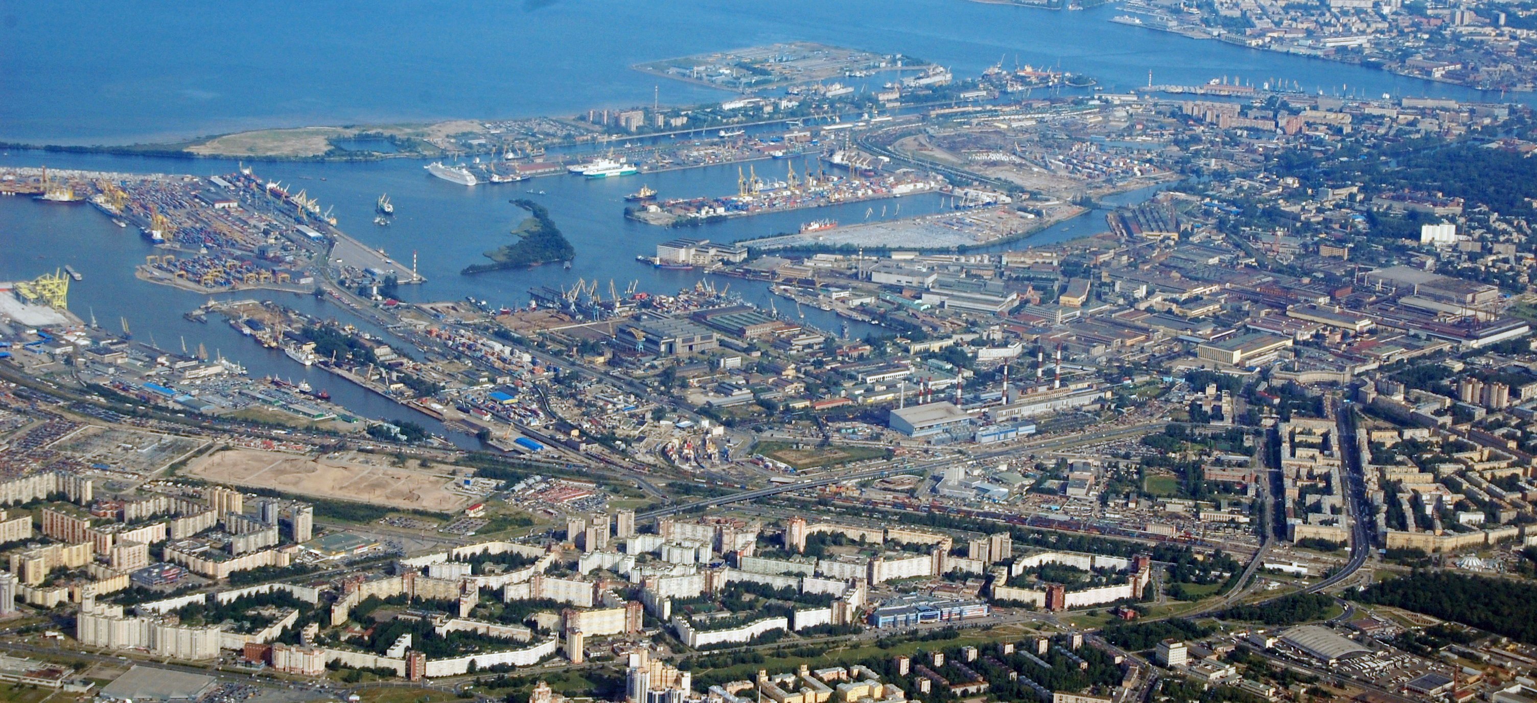 Northern part of Kirovsky District of Saint Petersburg (view from 1,5-2 km)